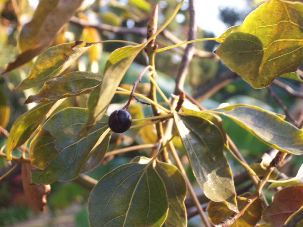 Camphor tree (Cinamommum camphora) - fruit, Réunion island